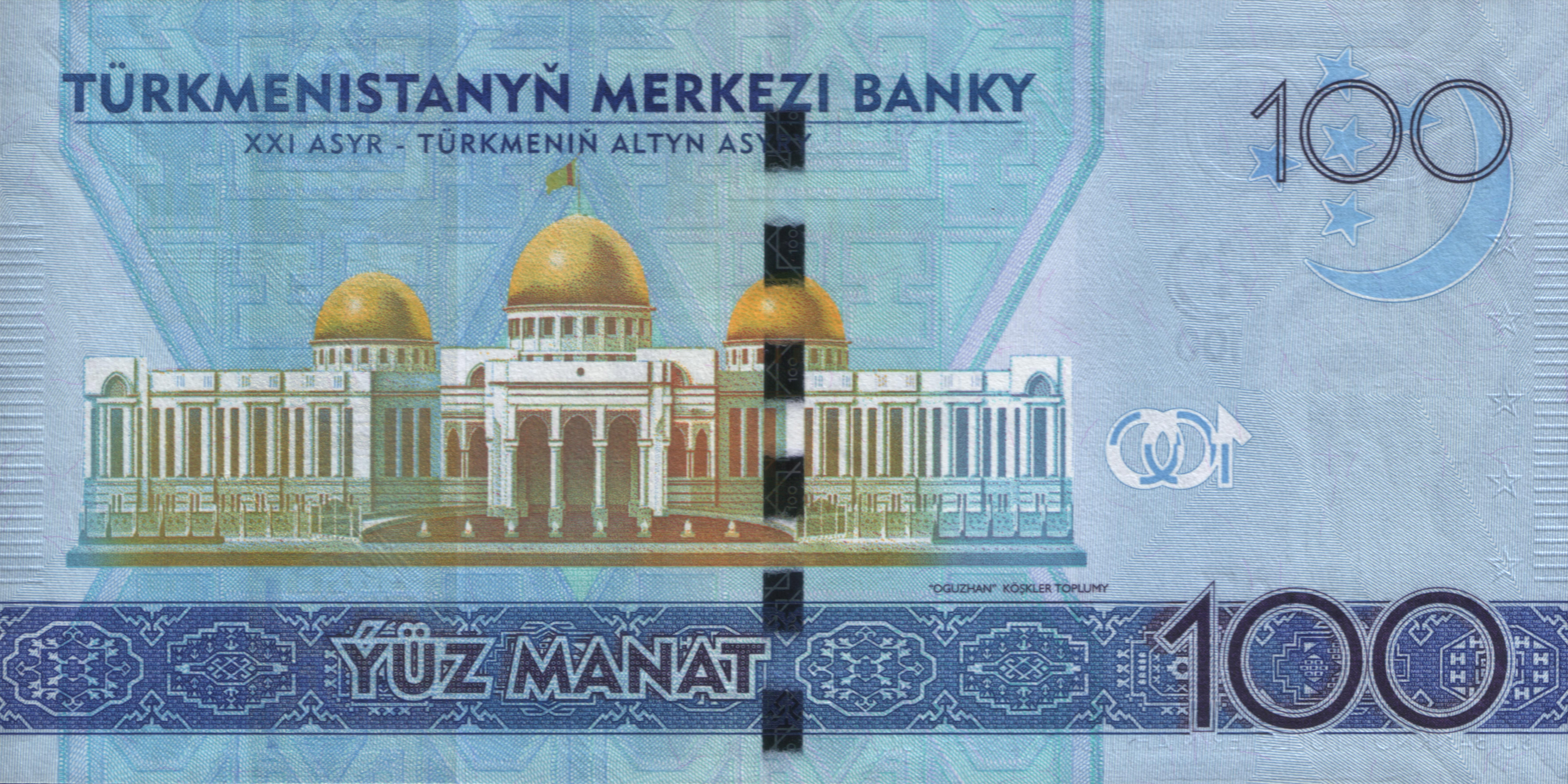 100 manats of Turkmenistan (2014)